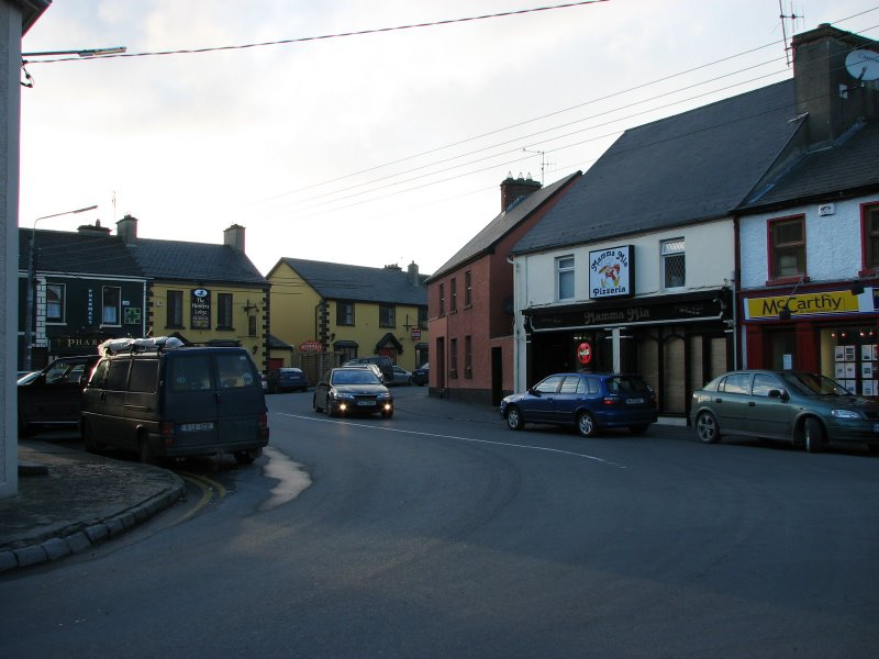 Village center